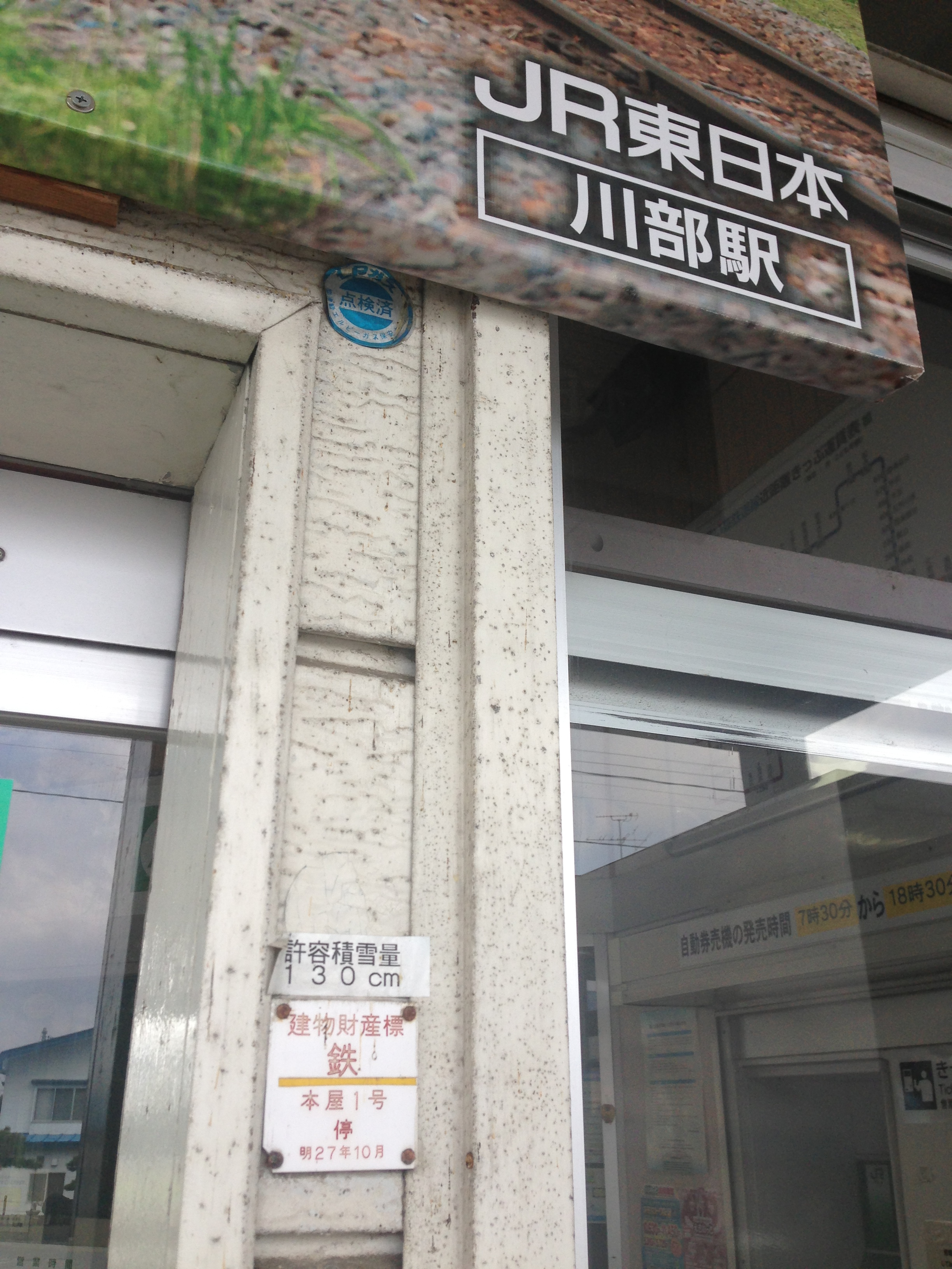 Building Property Signboard at JR Kawabe Station